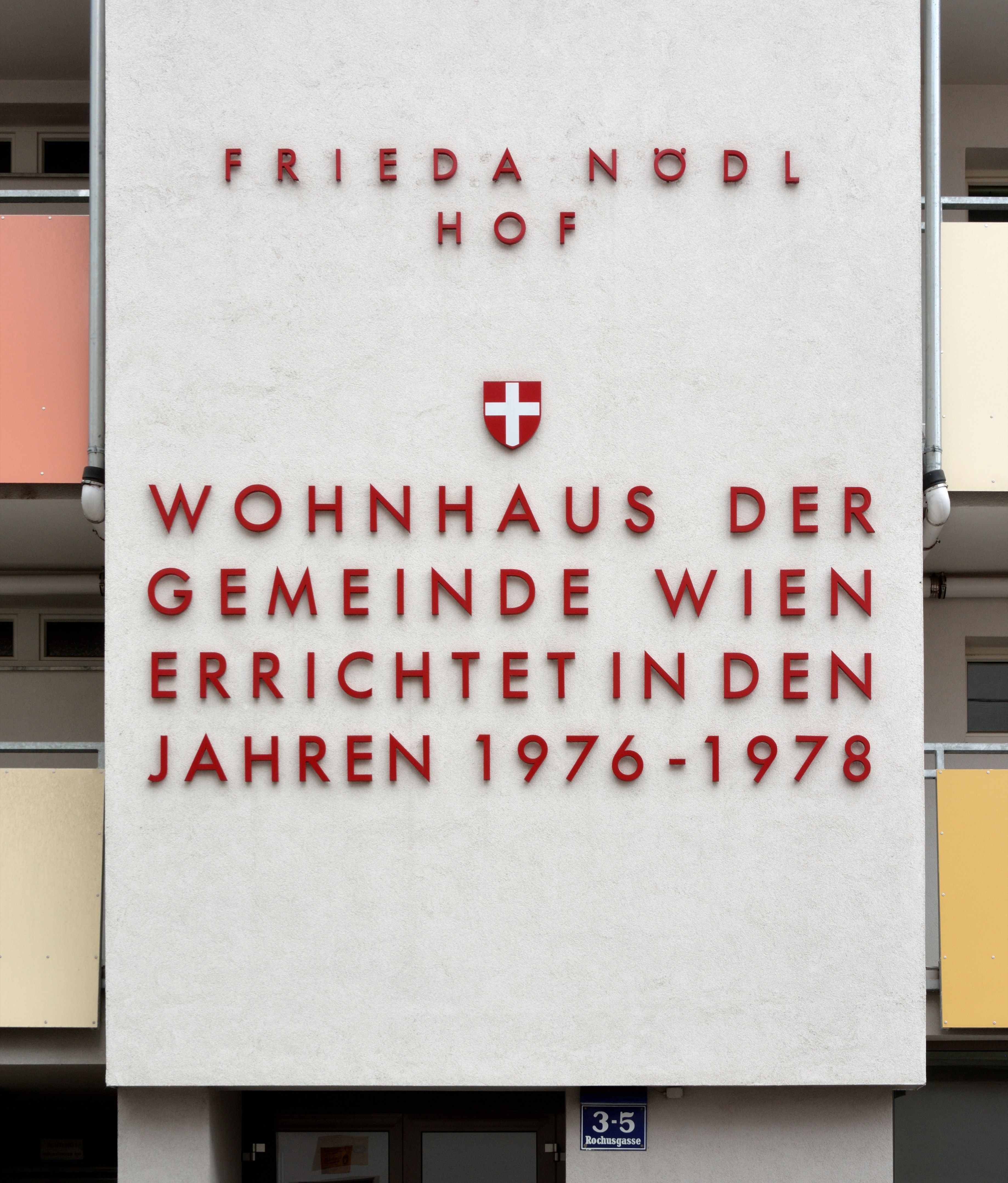 Community residential building Frieda-Nödl-Hof, Rochusgasse 3-5, 3rd district of Vienna